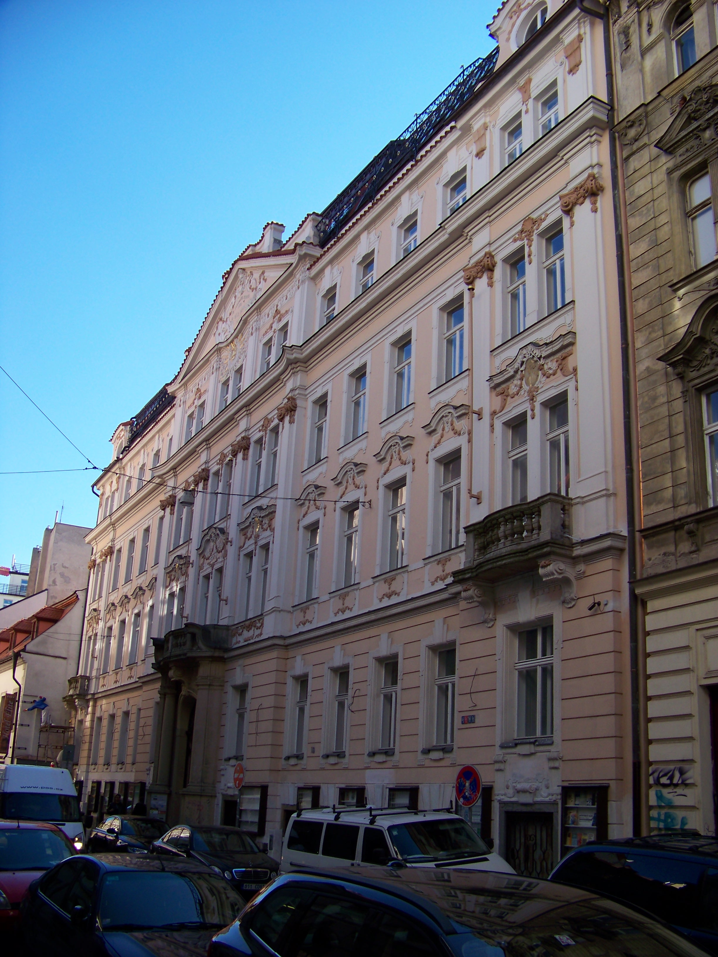 Prague-New Town. Ostrovní 126/30.